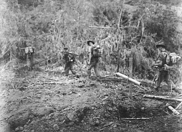 Australian soldiers from the 2/5th Infantry Battalion patrol around Yamil, July 1945, passing a makeshift grave.